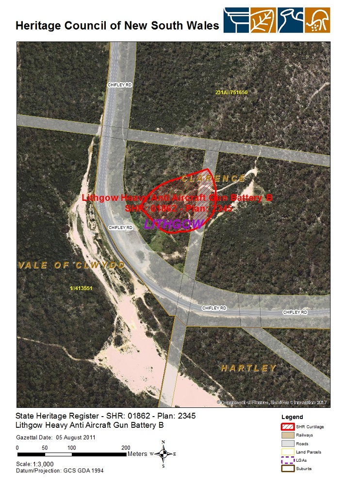 Lithgow Heavy Anti Aircraft Gun Stations and Dummy Station: SHR Plan 2345- Gun Battery B